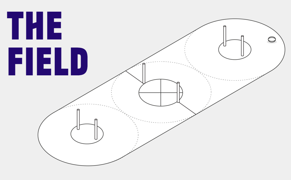 Terreny de joc de Speedgate